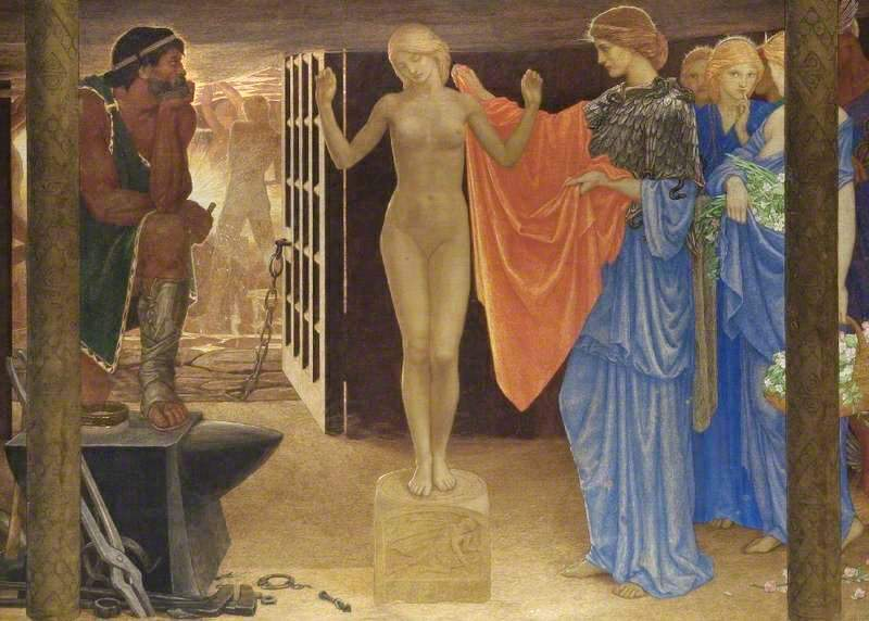 John D. Batten, “The Creation of Pandora”, 1913, tempera on fresco, 128 x 168cm, Reading University